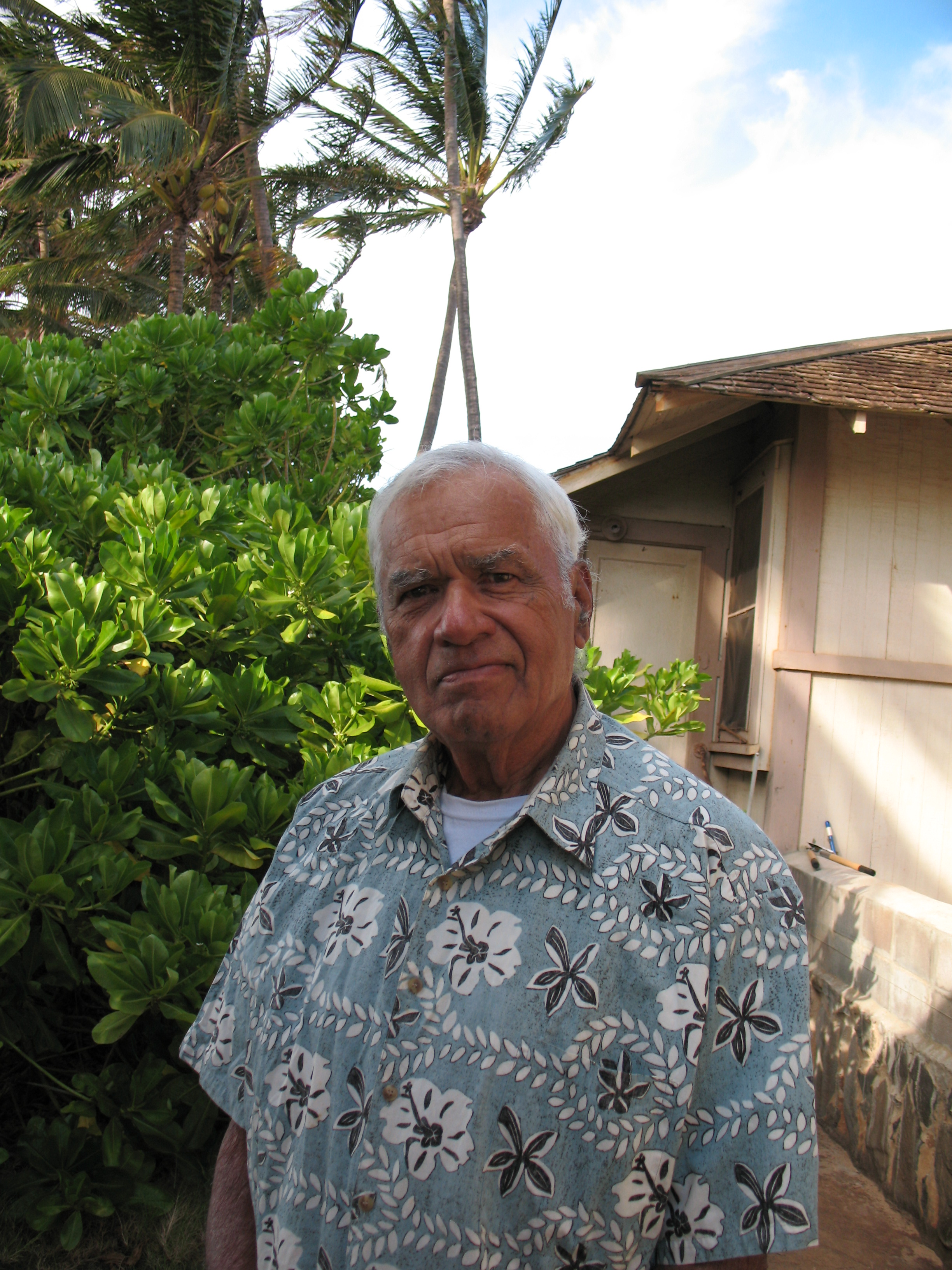 Hawaiian botanist Rene Sylva at his home in Paia, Maui